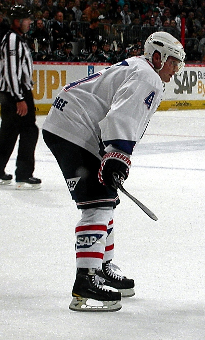 Manuel Klinge, Ice hockey player from Germany, forward